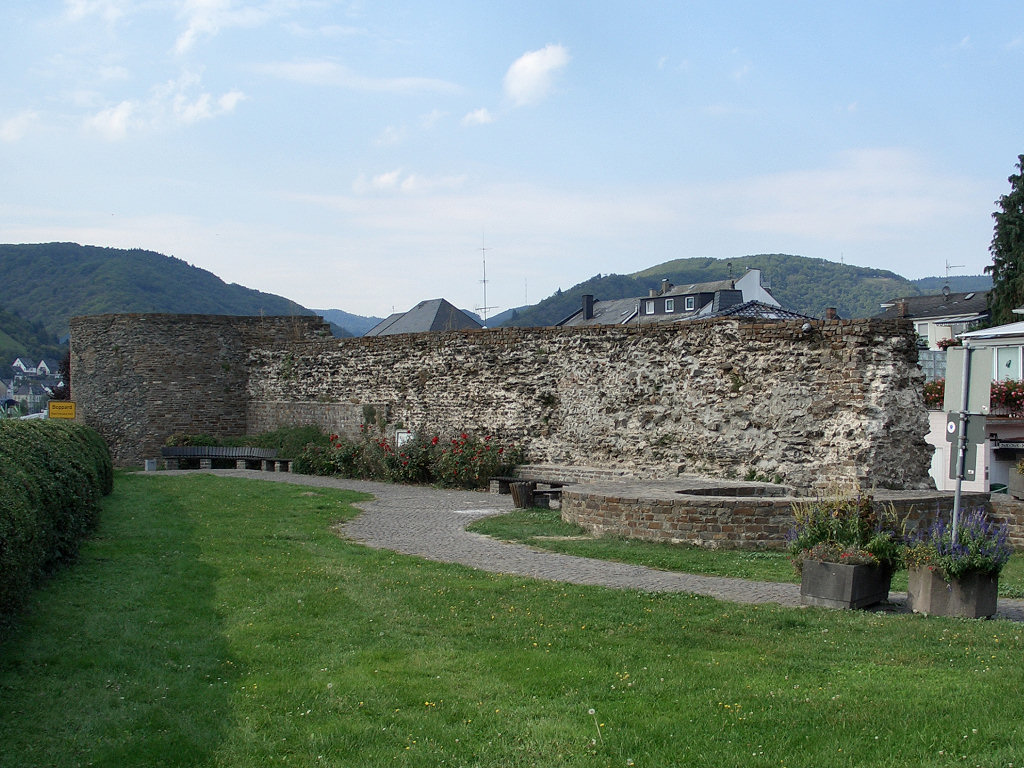 Roman Castellum in Boppard